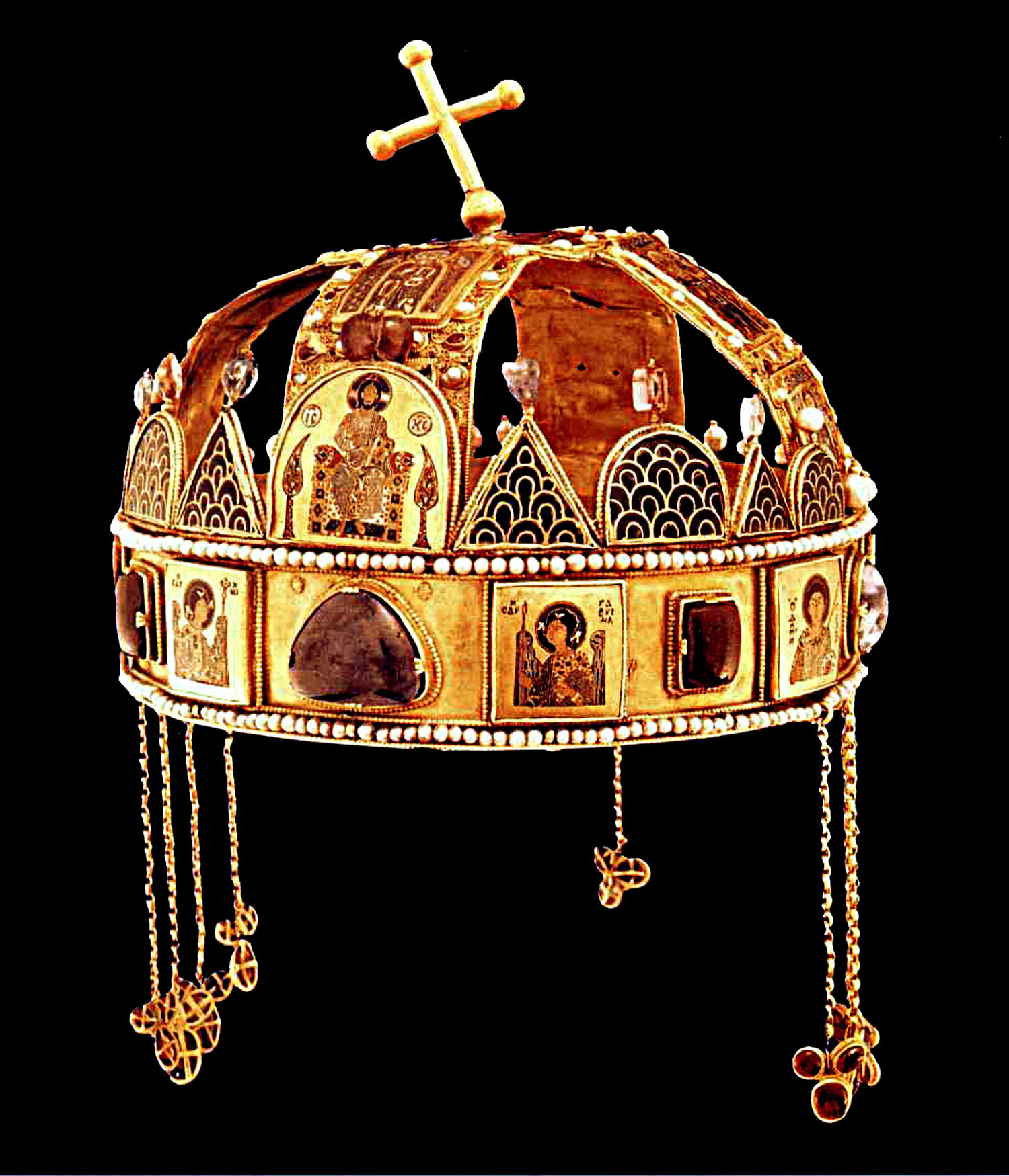 The Holy Crown of Hungary, front view Date30 January 2006Sourcehu:Fájl:SzentKorona elol.jpgAuthorhu:Szerkesztő:Tolfavi (a kép szerzője; feltöltő a magyar nyelvű Wikipédiában)